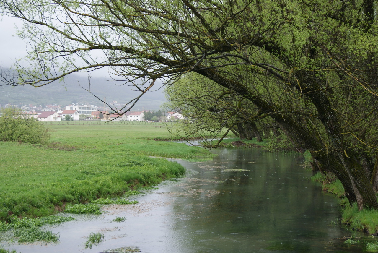 All around our house (105)